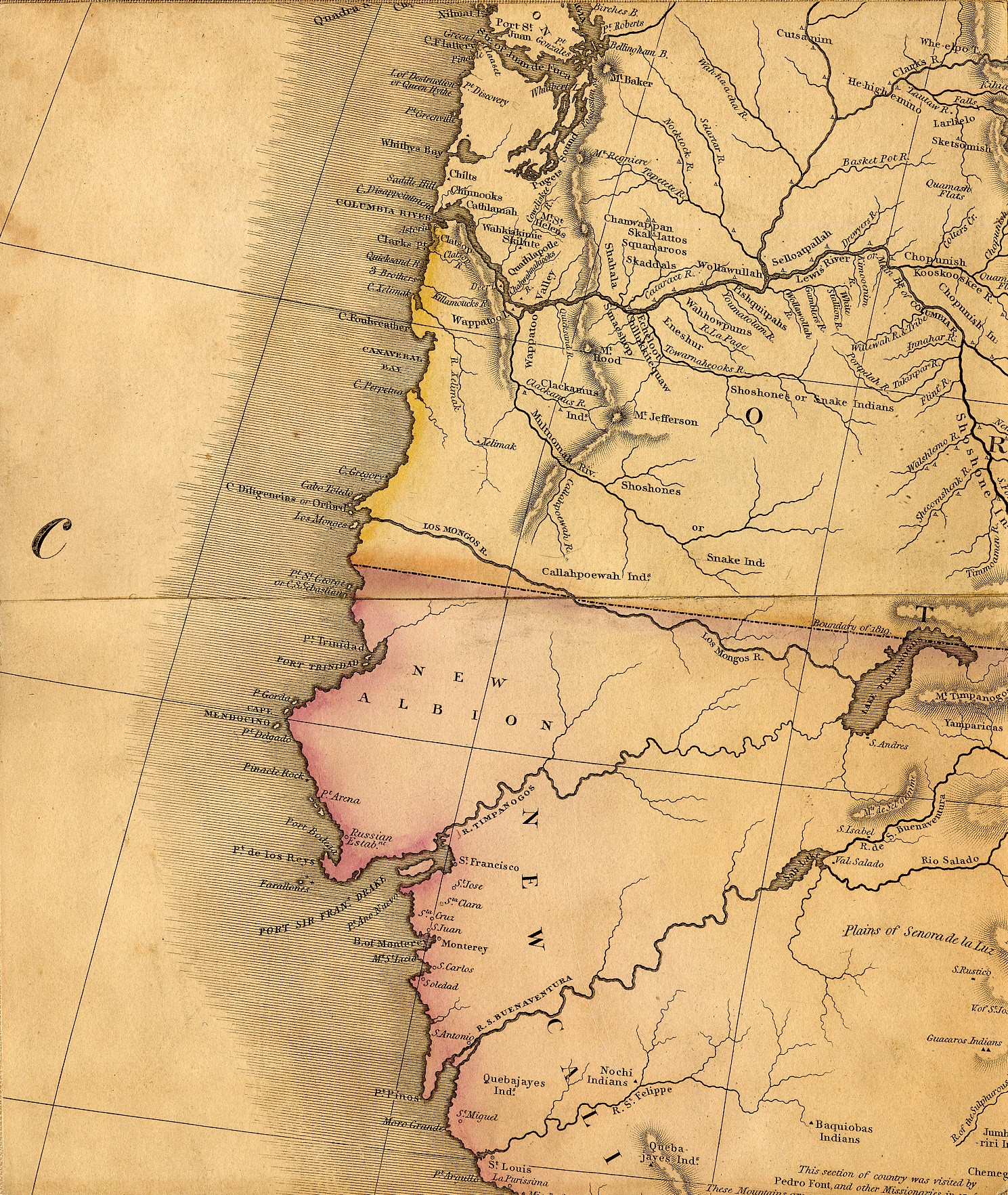 Henry S. Tanner's 1822 Map of North America - part showing the Pacific Coast with fictive Rivers from the Rocky Mountains to the Pacific Ocean.